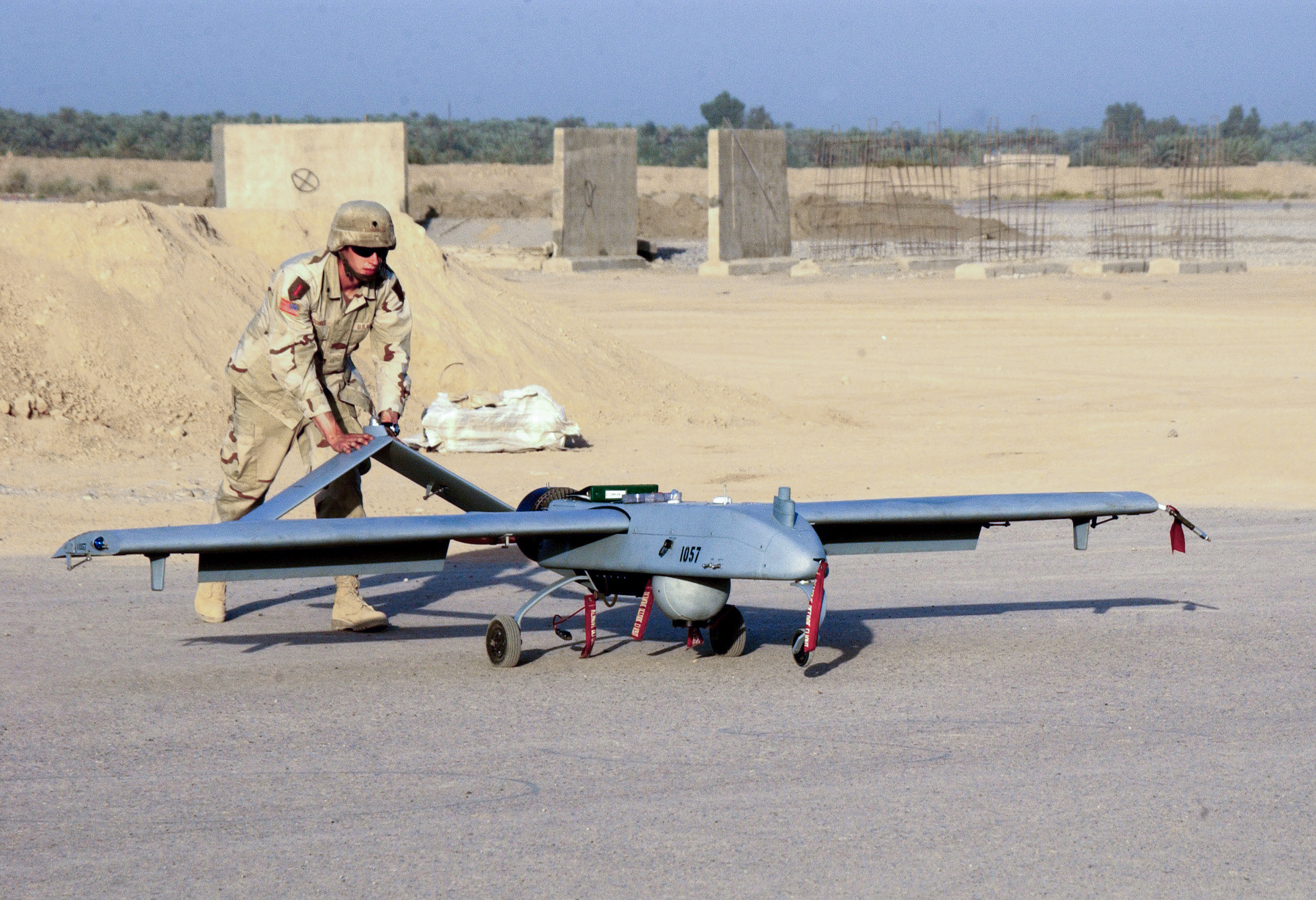 Spc. Jeremy Squirres of Company A, 101st Military Intelligence Battalion, 3rd Brigade Combat Team, 1st Infantry Division, prepares a Shadow 200 Unmanned Aerial Vehicle for launch at Forward Operating Base Warhorse, Iraq. This photo appeared on